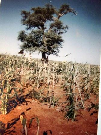 This is a sorghum plant in Waly Diantang, Mauritania. It is the samme agriculture (flooded farmland).